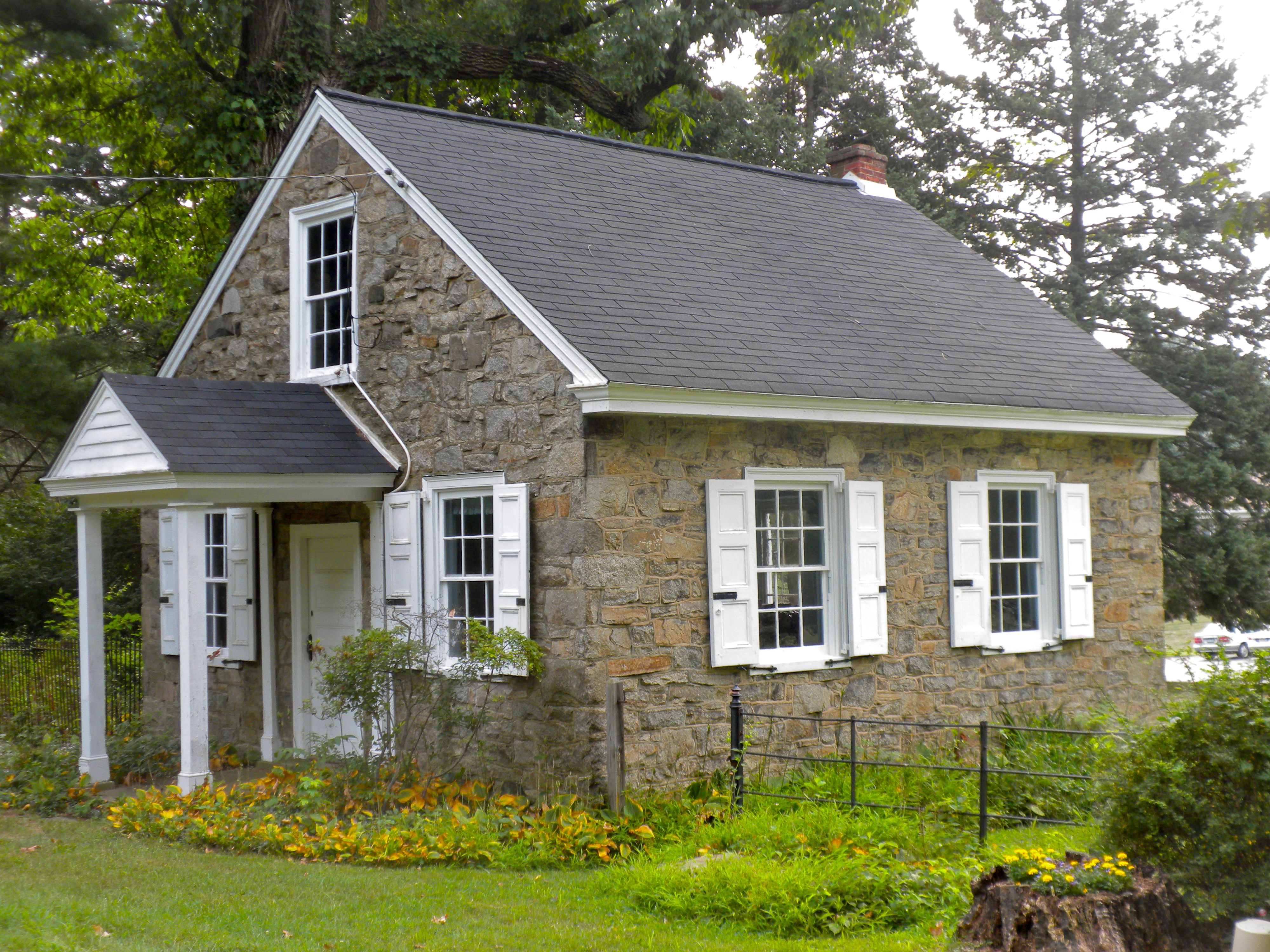 School at Middletown Friends Meetinghouse in Middletown Township, Delaware County, Pennsylvania. Thos building is not on the NRHP but ought to be. It has been documented by HABS (but this photo is my own). Adjacent Friends Meeting was built in 1835, and presumably the school dates from this period as well. Joshua Pusey, a Quaker and Philadelphia lawyer, lived next door at "Maple Linden" (now a modern retirement home), according to a Pennsylvania Historical Marker (PHMC). He also invented paper matches. Located southwest of Media, PA on east side of RT. 352